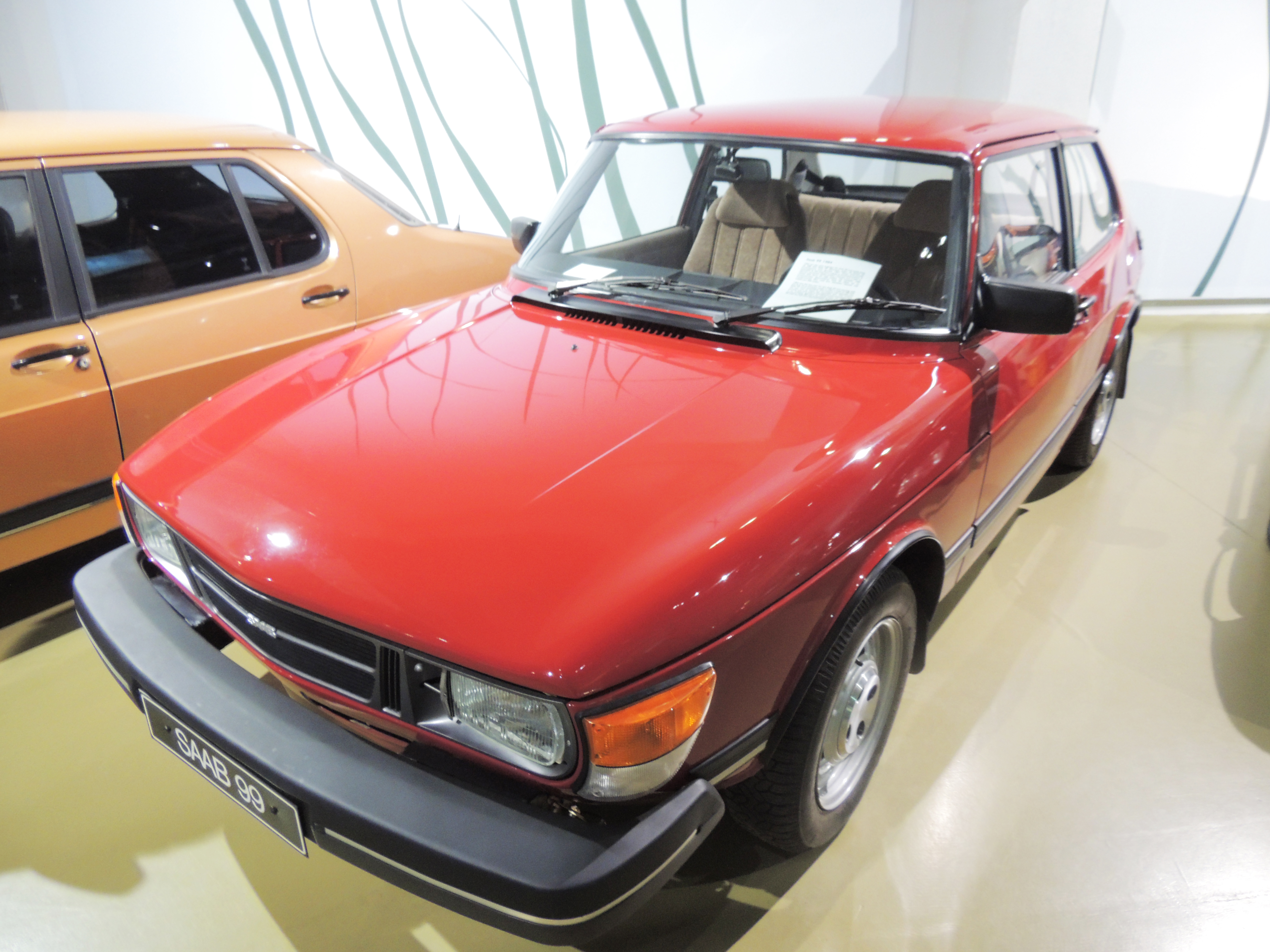 Saab 99 GL Sedan make 1984